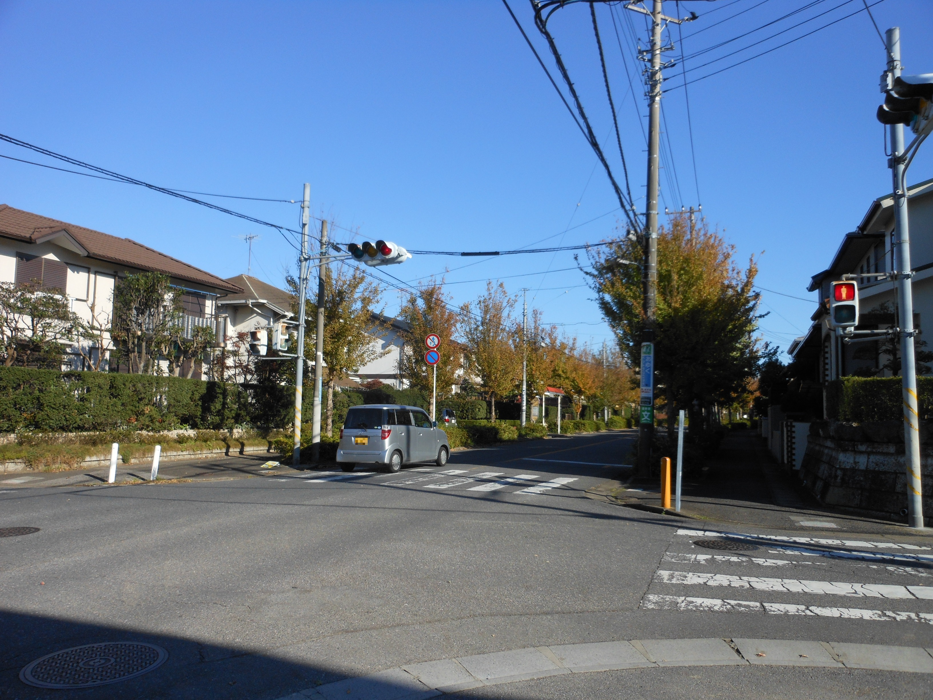 This is a landscape of Fusaheiwadai 3 chome, Abiko, Chiba, Japan.